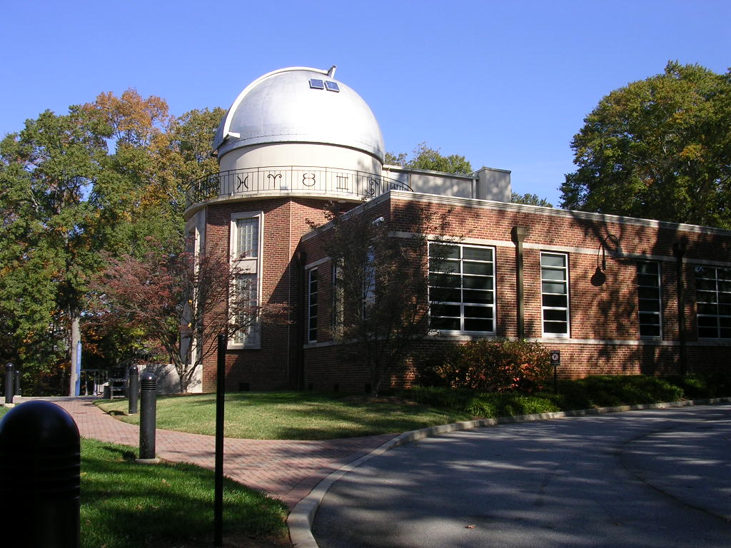 Bradley Observatory at Agnes Scott College in Decatur, Georgia. 33°45′55″N 84°17′39″W / 33.76528°N 84.29417°W